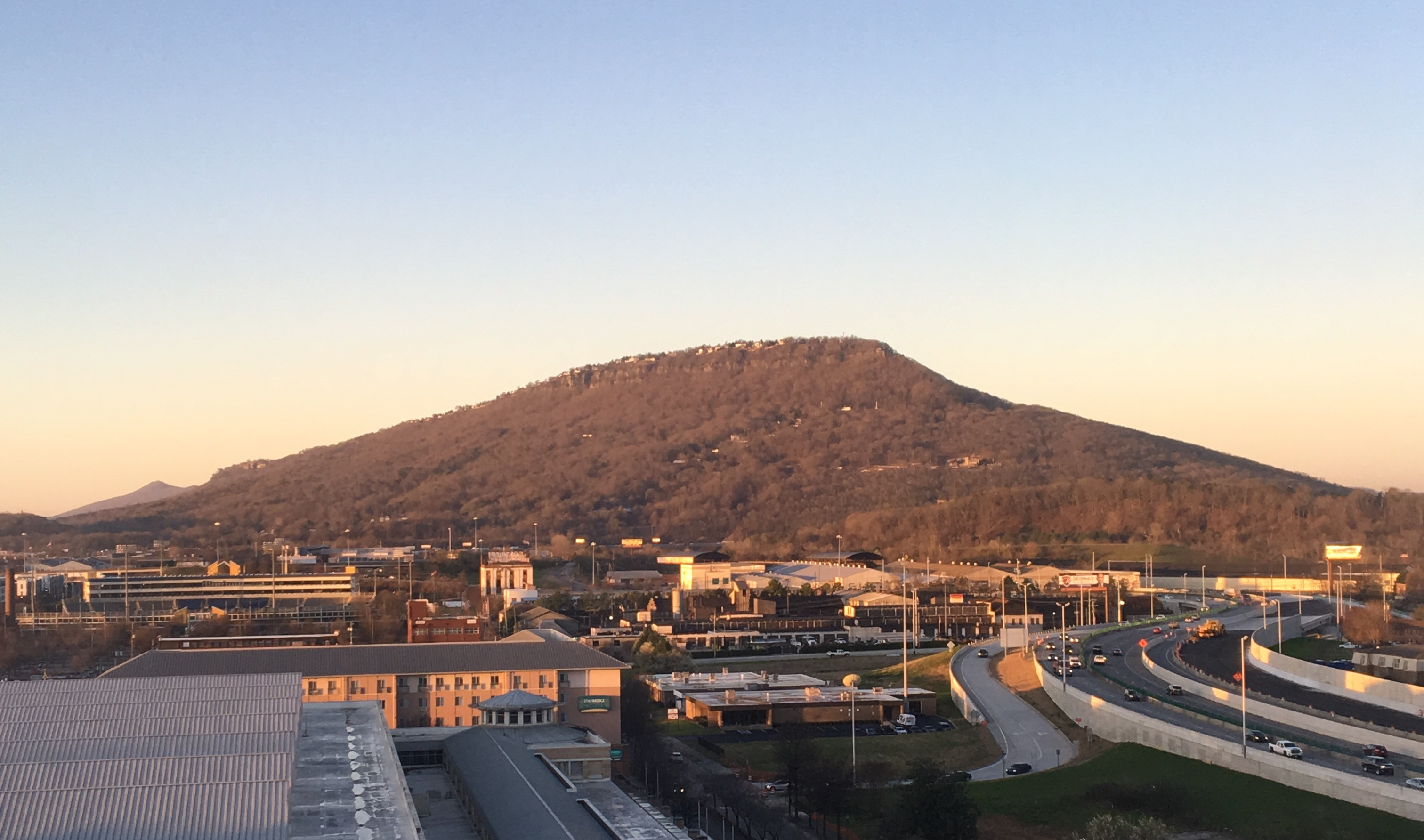 Lookout Mountian as viewed from Chattanooga Marriott Downtown in Tennessee on March 6, 2020.